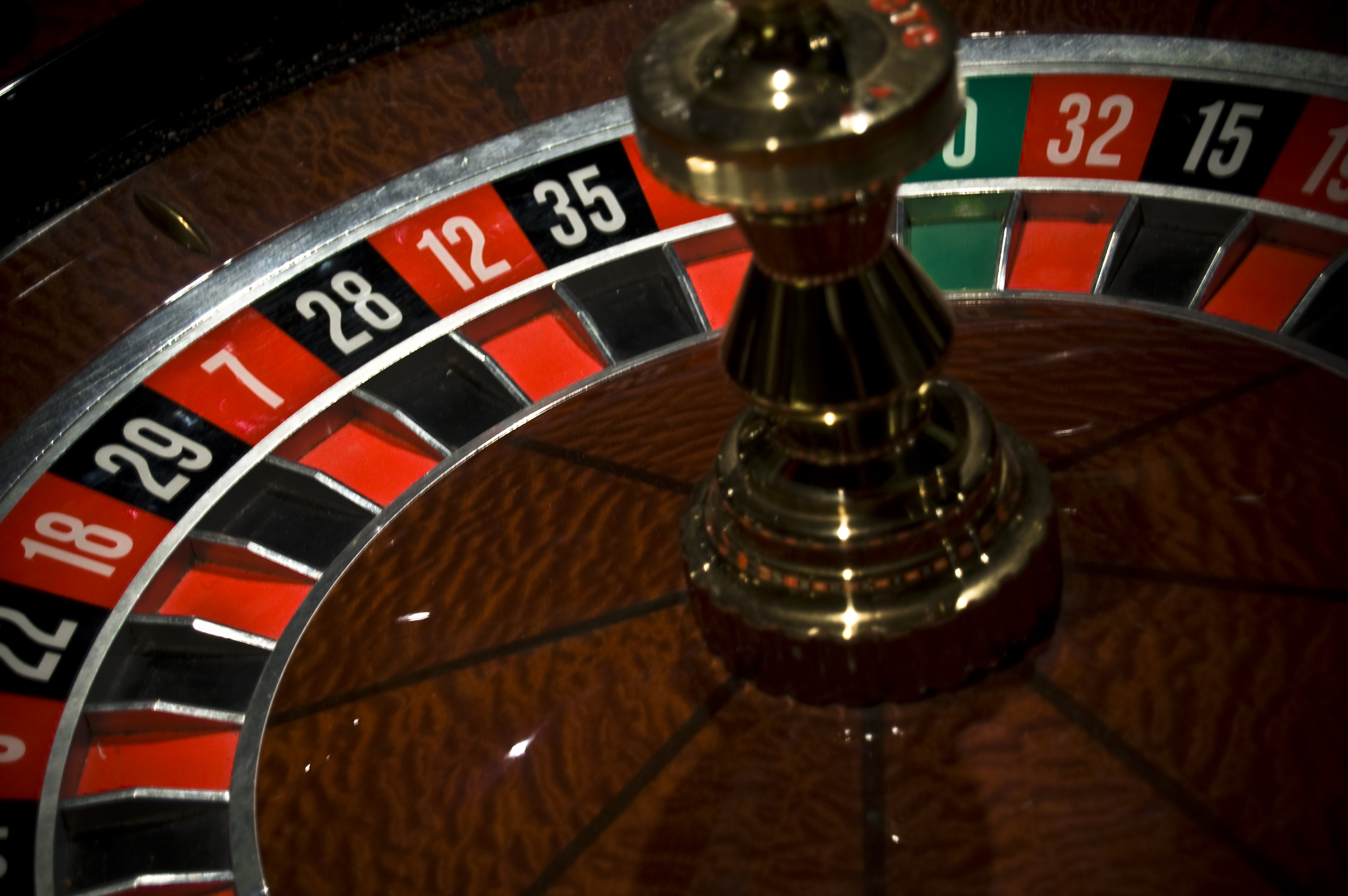 A Rouelette table from Silja Galaxy